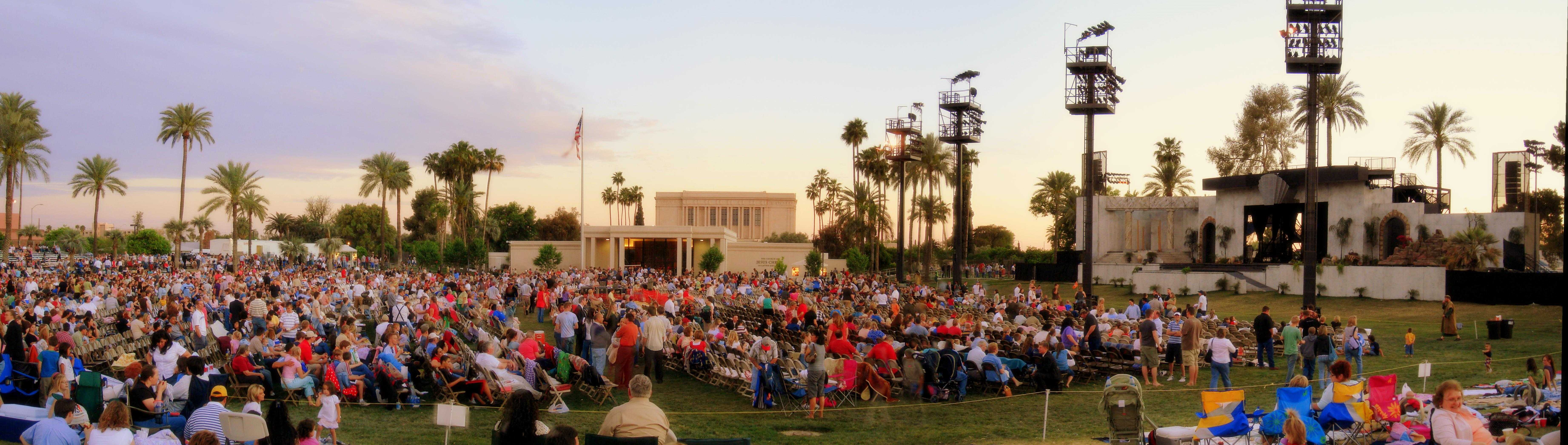 Panoramic view of the Mesa Easter Pageant, facing south. Spectators sit on the north lawn on the temple grounds, facing the pageant stage on the right. The temple visitors' center is visible behind the crowd, with the Mesa Temple visible behind that. A white structure appears to be near the east parking lot (left of temple). The Mesa FamilySearch Library is barely visible on the extreme left (in brown brick).